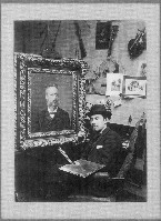 The Belgian painter Emile Bulcke (1875-1963) sitting next to the portrait of Leon Thoma; collection of Mu.ZEE, Ostend, Belgium